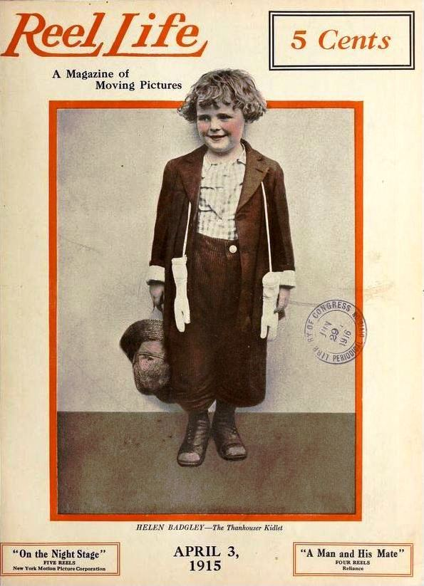 American child actress Helen Badgley (1908 - 1977) on the cover of the April 3, 1915 Reel Life magazine.